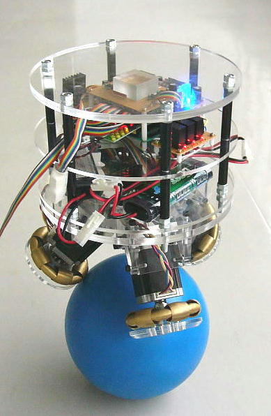 This picture shows BallIP, a ball balancing robot developed by Prof. Masaaki Kumagai, Japan.